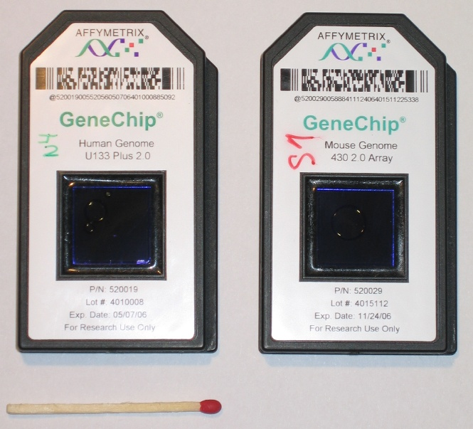 Two Affymetrix chips. Photograph by myself.